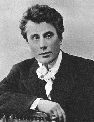 Russian silent movies actor and director Ivan Perestiani